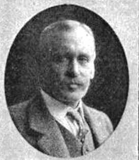 Swedish lawyer and Supreme Court Judge Axel Thollander (1848-1909)